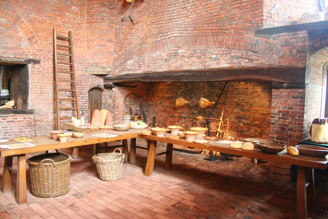 Medieval kitchen One of the vast fireplaces in Gainsborough Old Hall's medieval kitchen